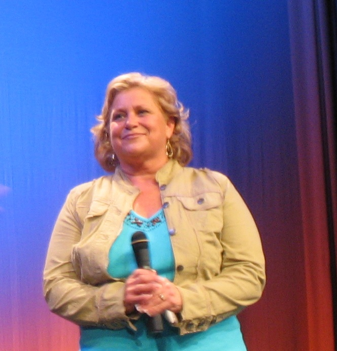 Sandi Patty singing at a church in April 2006.